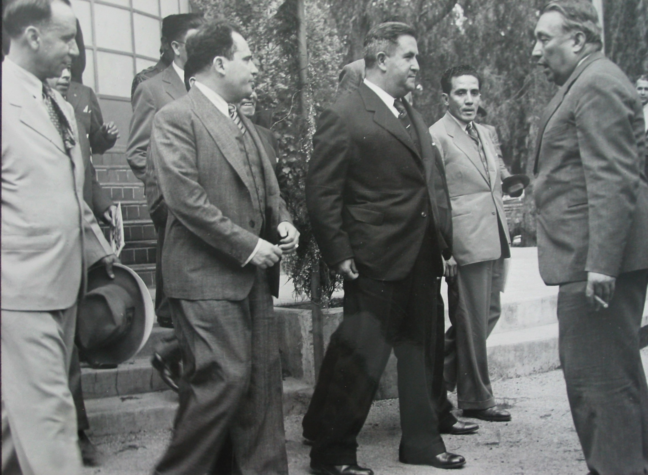 Aurelio Escobar with the presidente Manuel Avila Camacho, 1940's